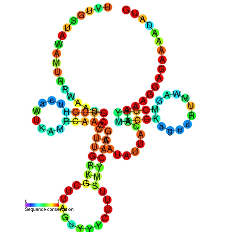 Secondary structure image for preQ1-II non coding RNA (RF01054). Nucleotide colouring indicates sequence conservation between the members of this family.